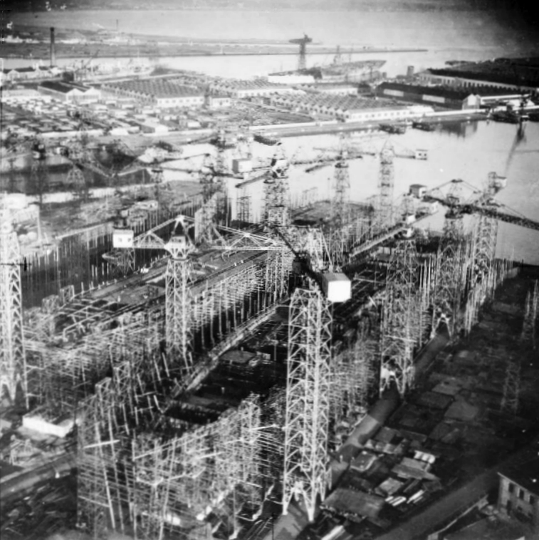 The Royal Navy Majestic-class aircraft carriers HMS Magnificent (left) and HMS Powerful under construction at Harland and Wolff's Musgrave shipyard, Belfast, Northern Ireland (UK). Both carriers would serve with the Royal Canadian Navy, Powerful as HMCS Bonaventure.